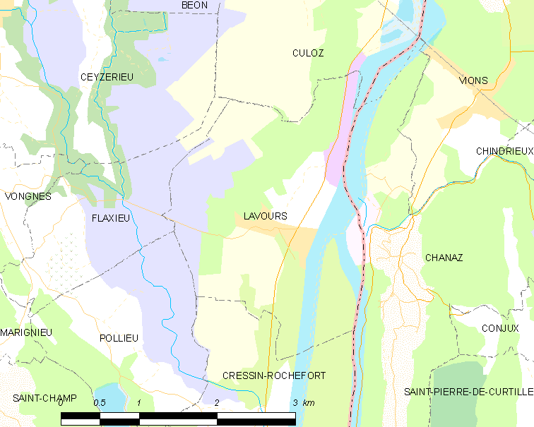 Map of French commune: Lavours Map commune FR insee code 01208.png